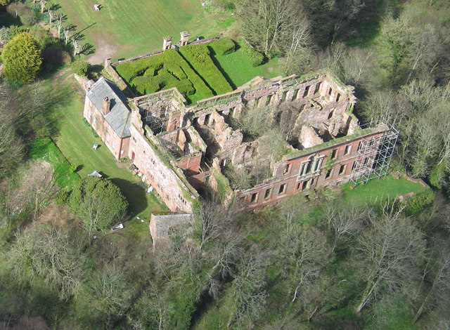 High Head Castle is a large fortified manor house in the English county of Cumbria.